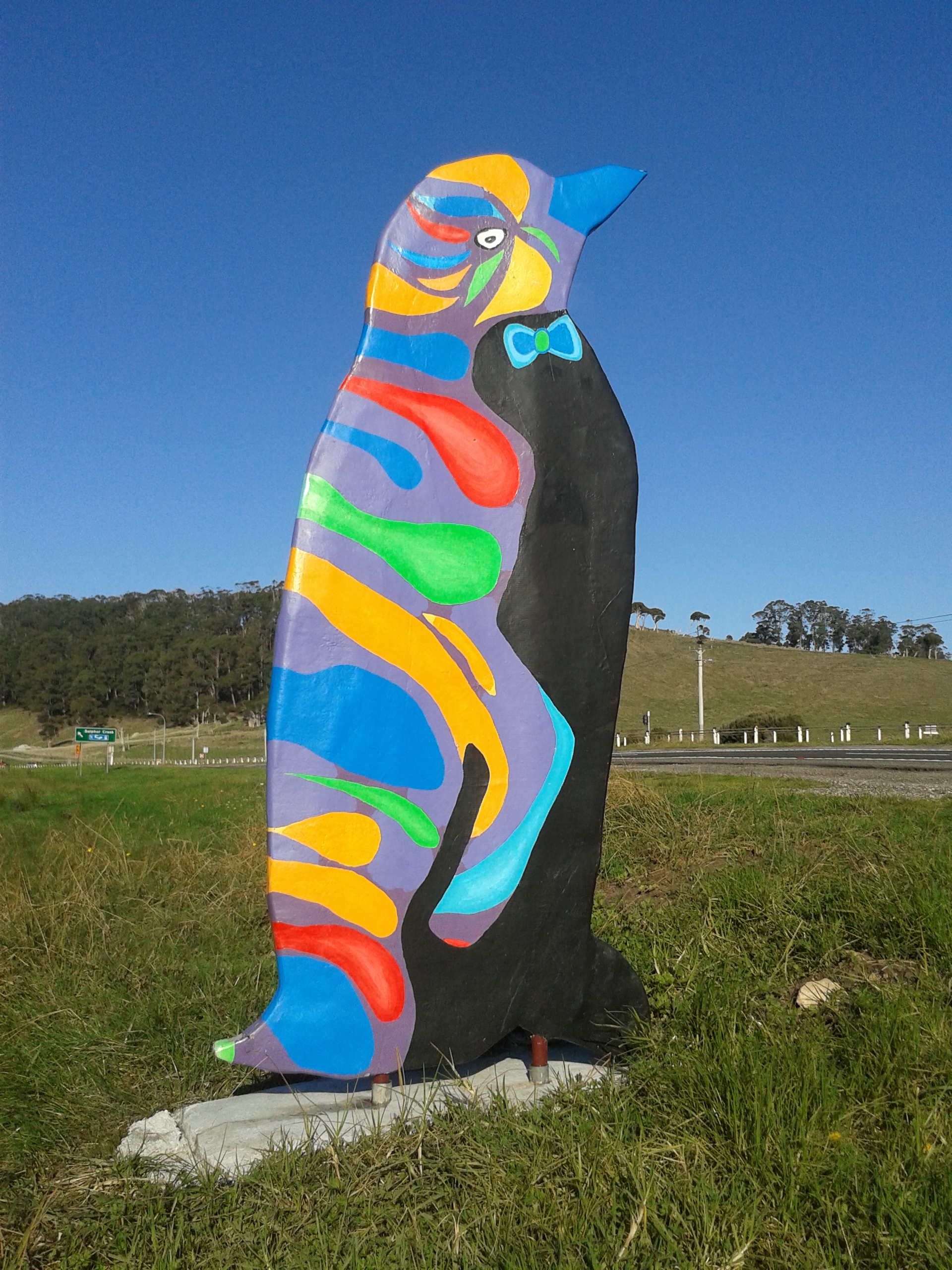 Just one of the many colourful penguins in, and about, Penguin